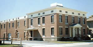 Norwich NY Police Station